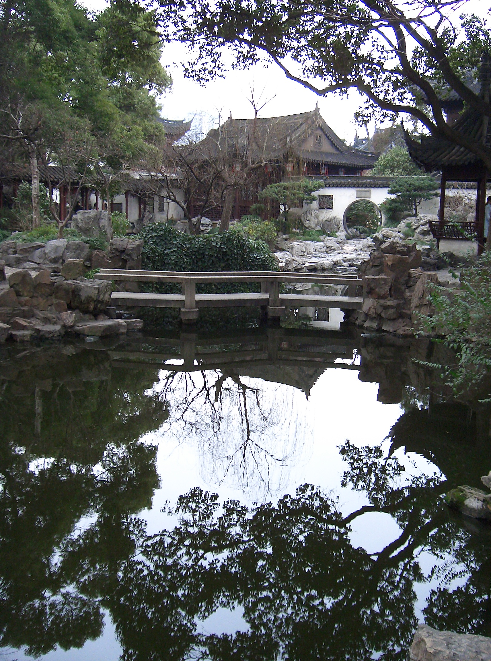 Huijing Pond at Yuyuan Gardens in Shanghai